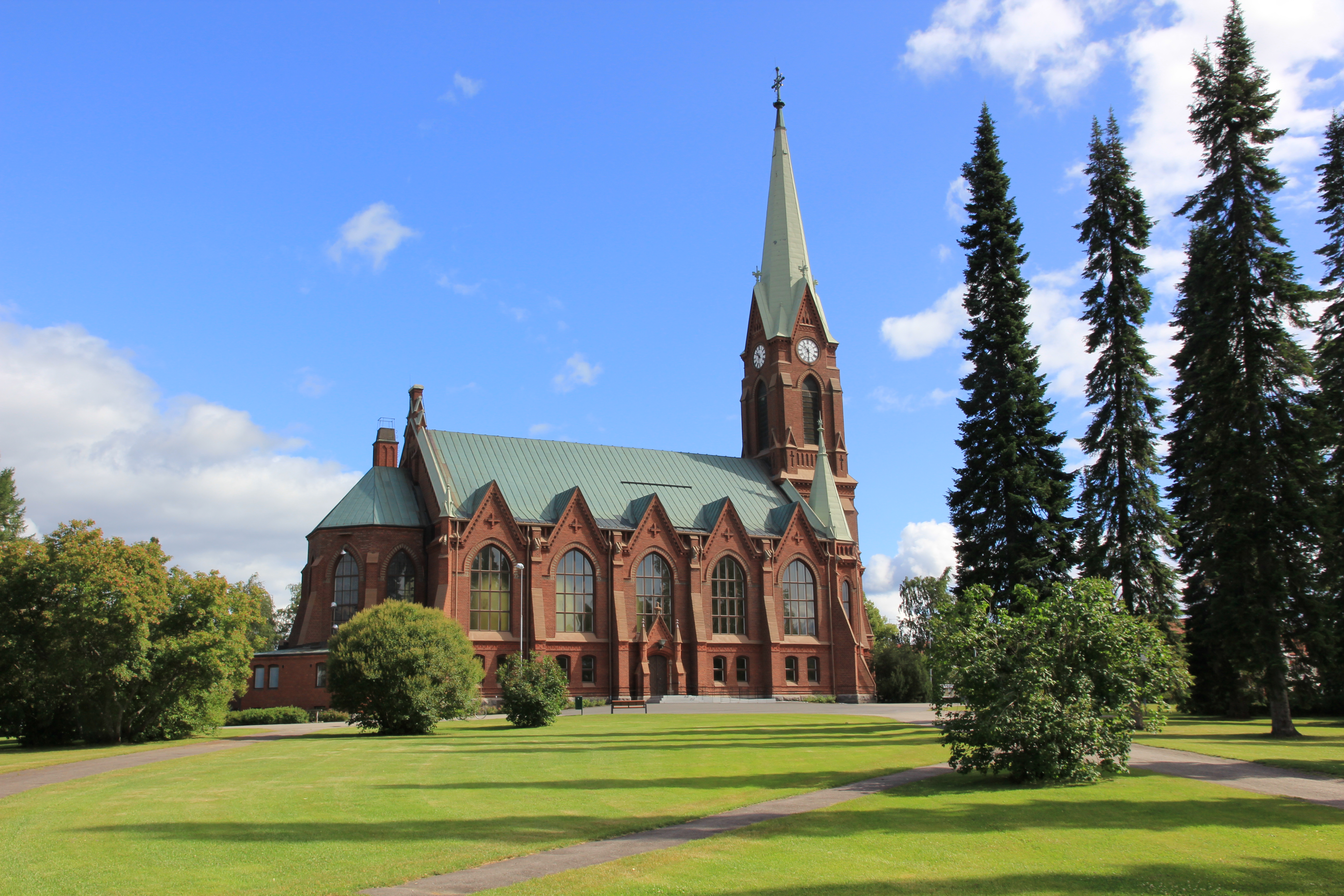 Mikkeli cathedral.